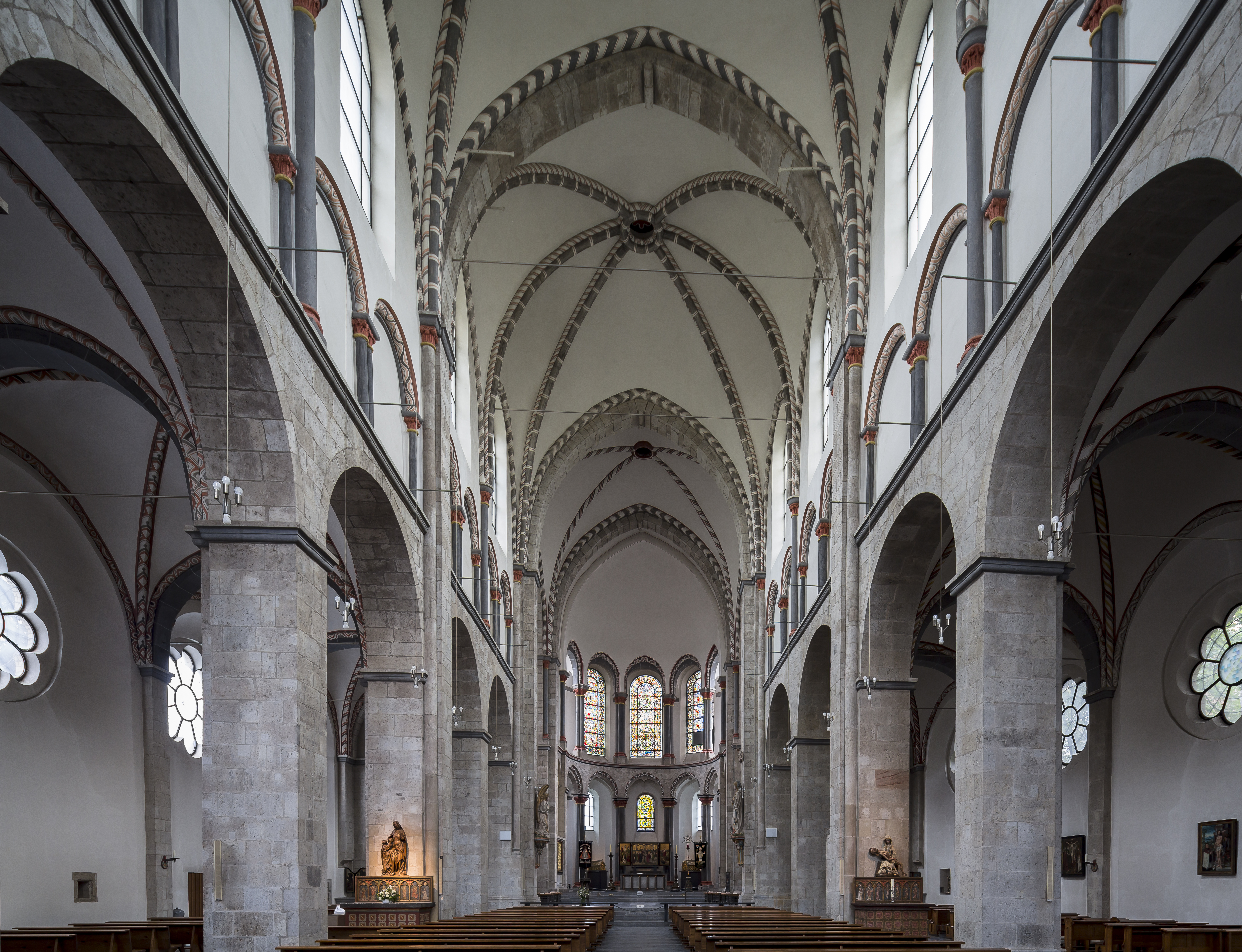 Cologne, Germany: Interior view of romanesque church St. KunibertThis is a photograph of an architectural monument.